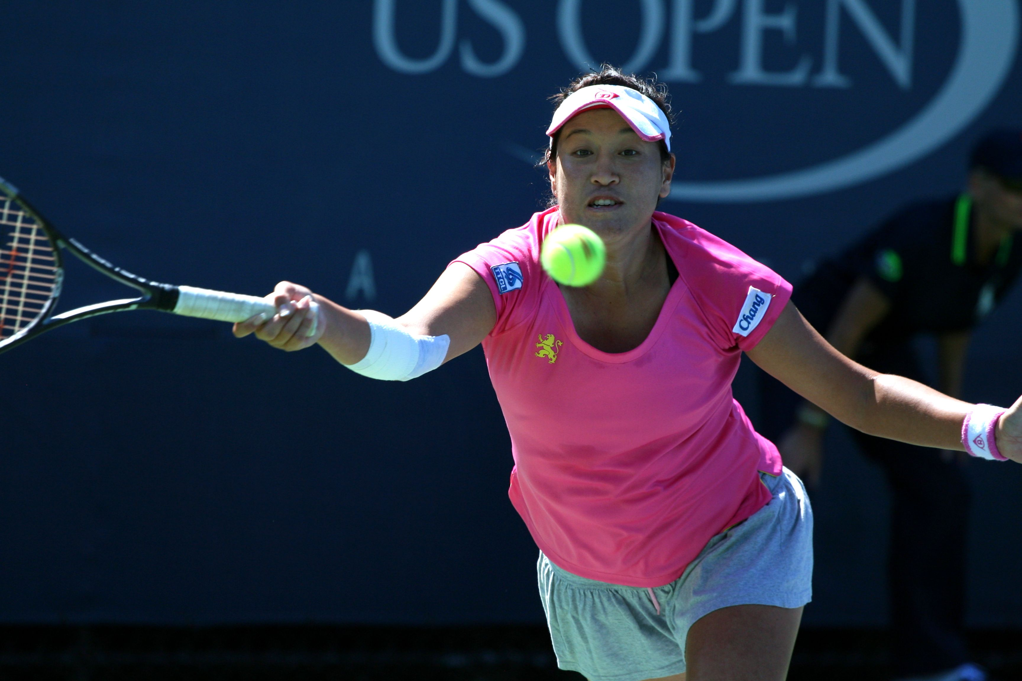 U.S. Open Tuesday, Aug. 30, 2011